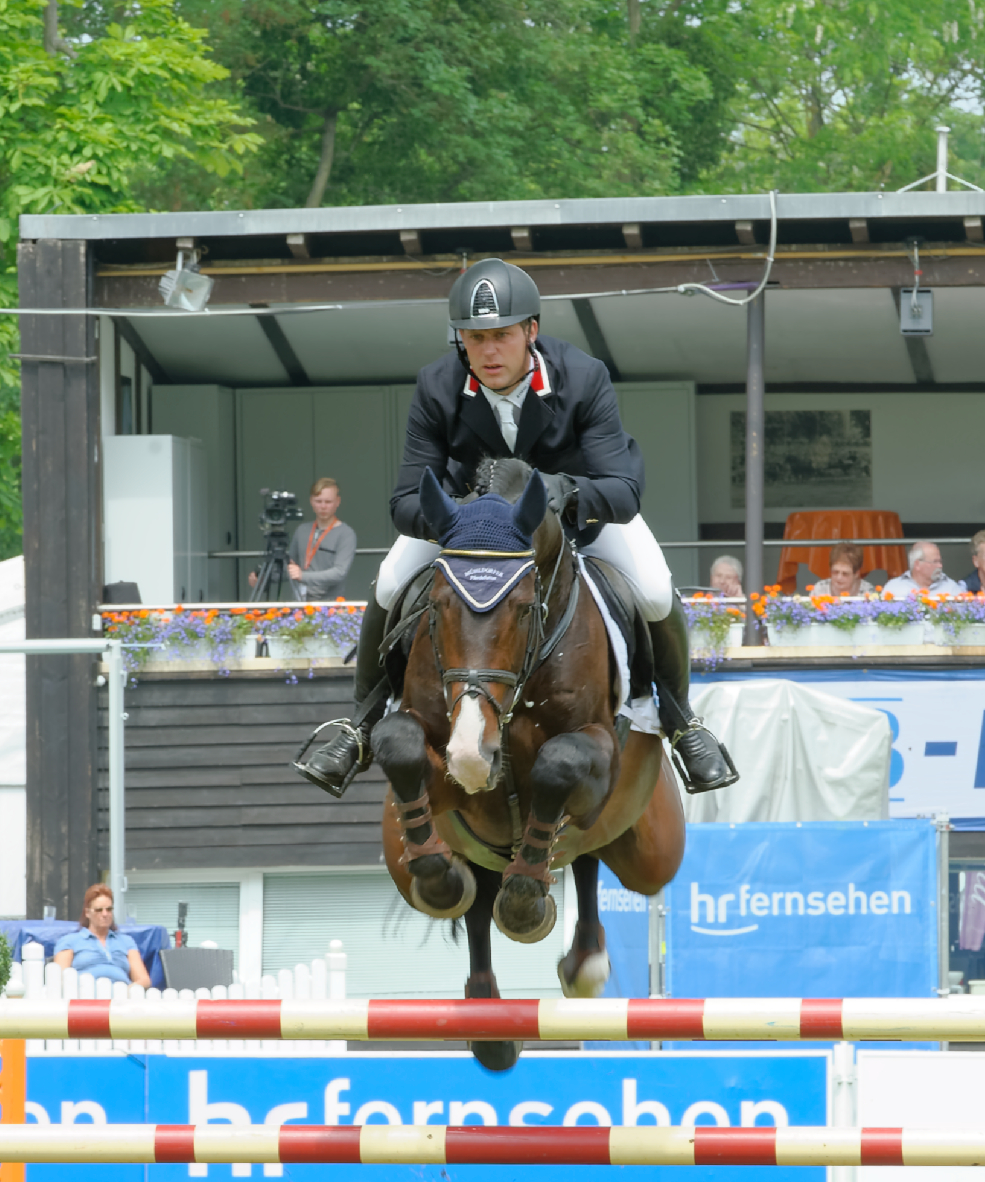 CSIYH* int. Springprüfung nach Strafpunkten und Zeit Internationales Pfingstturnier Wiesbaden 2015 The making of this document was supported by the Community-Budget of Wikimedia Germany.